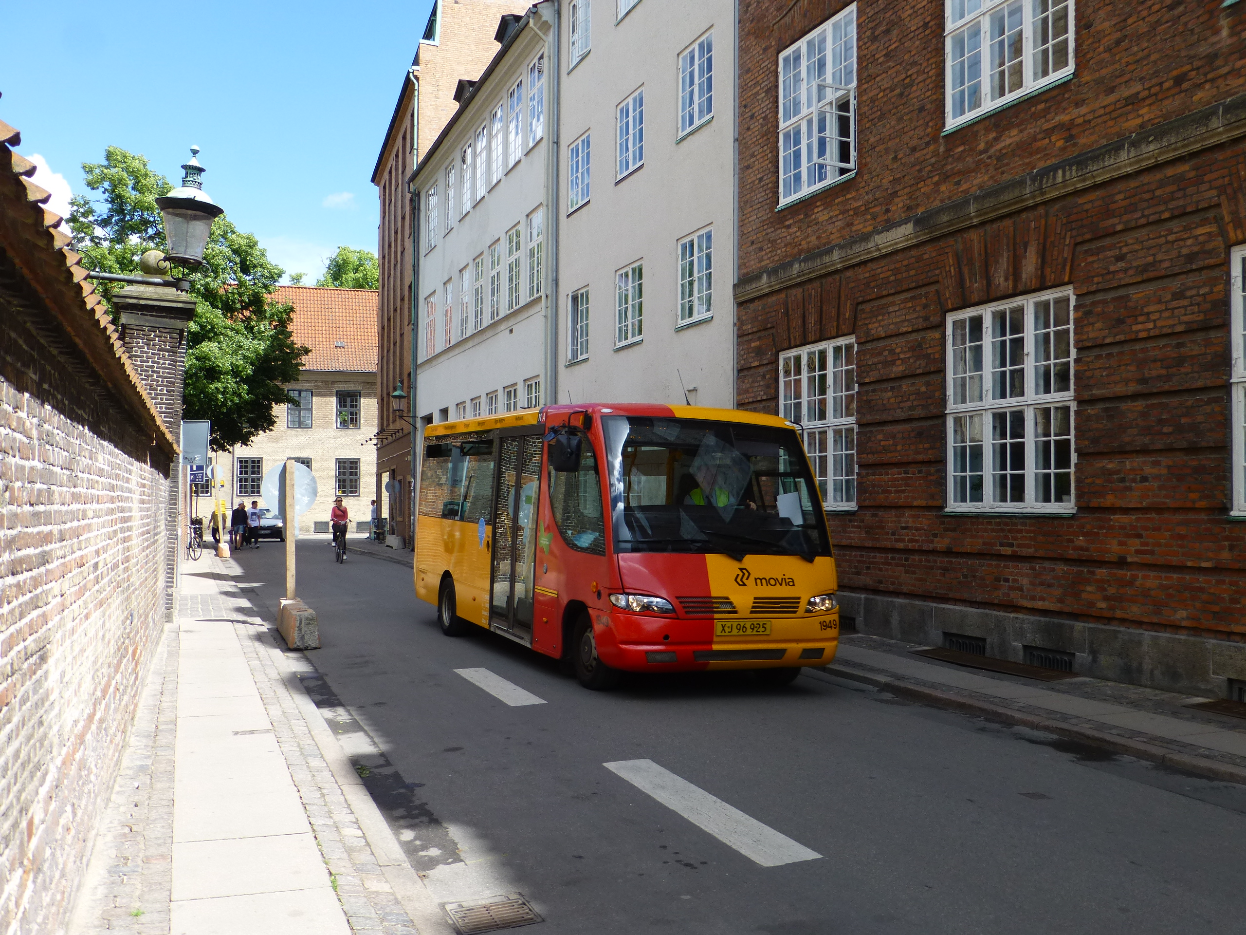 Movia bus line 11A on Sankt Peders Stræde in Indre By in Copenhagen. This street is usually no served by buses, but due to roadmaking on Nørregade the buses on line 11A had to go another way.